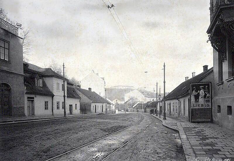 Hlinky street, Brno, Czech Republic